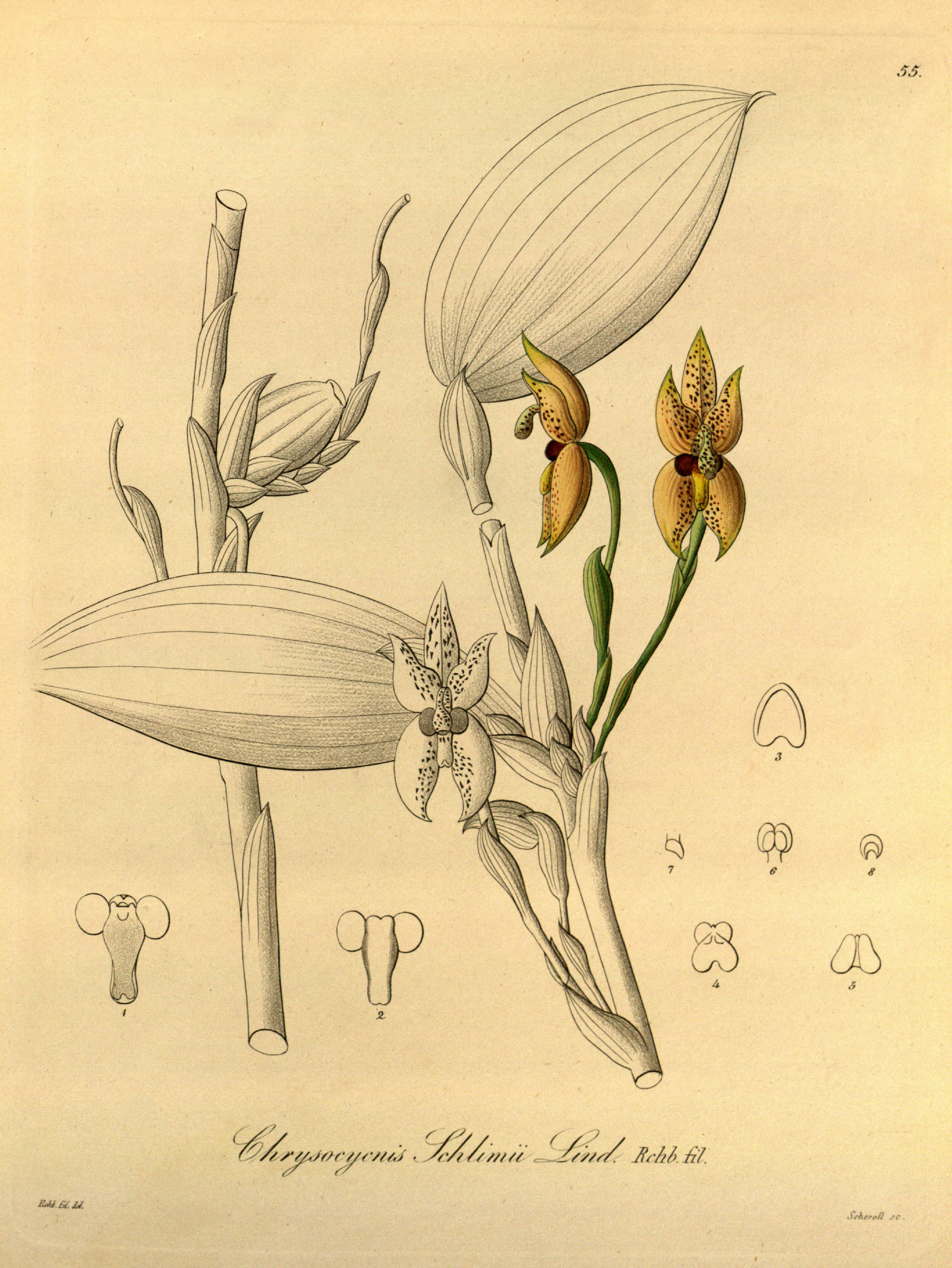 Illustration of Chrysocycnis schlimii